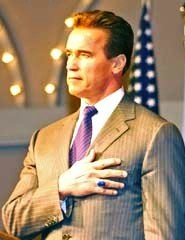 Cropped image of Arnold Schwarzenegger.